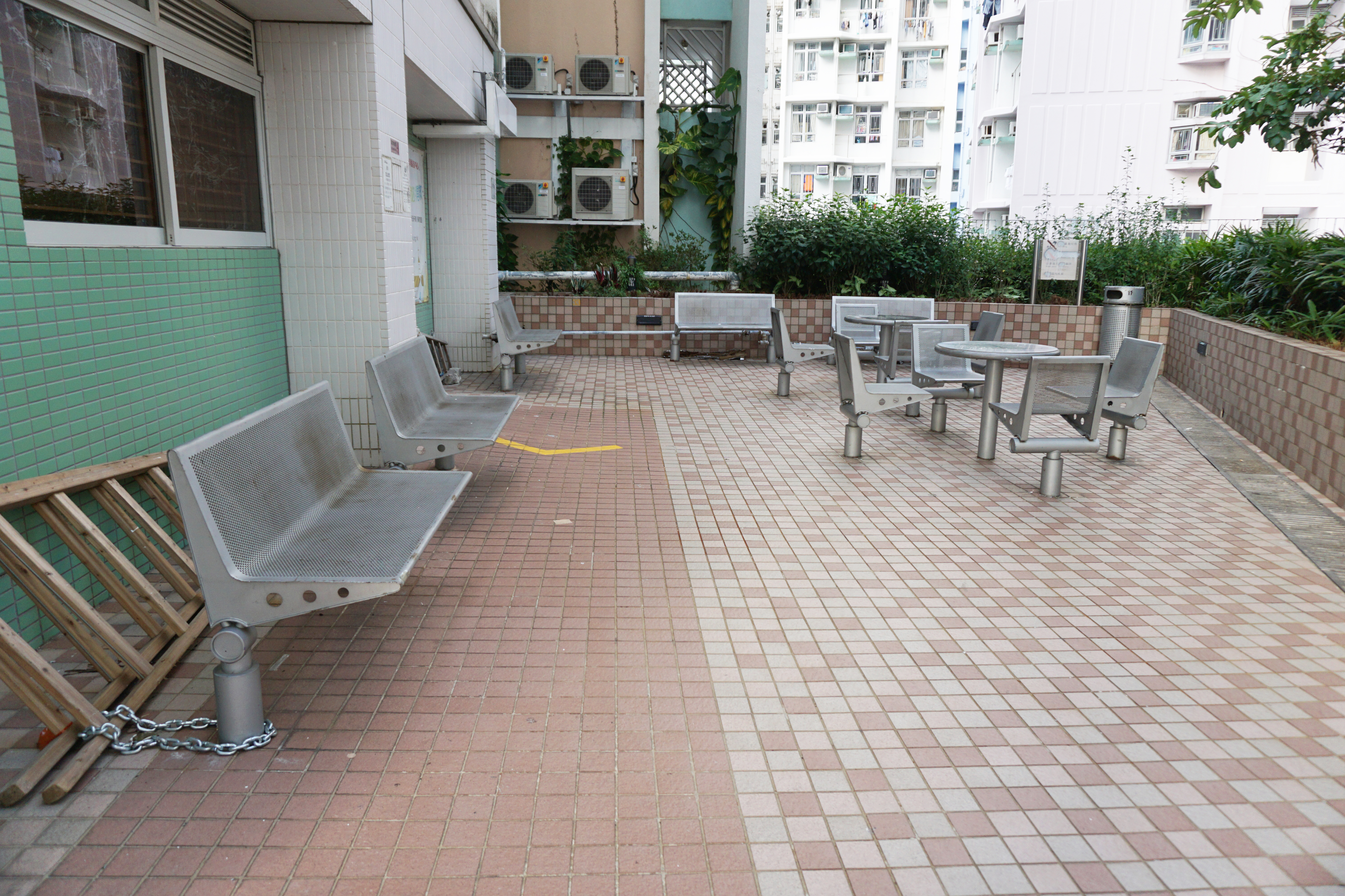 Shek Pai Wan Estate in Aberdeen, Hong Kong.